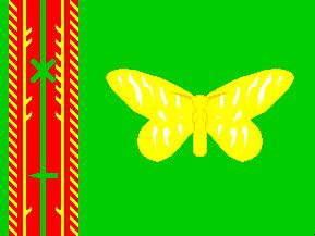 Flag of Oro Province